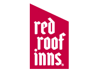 Former logo of Red Roof Inns